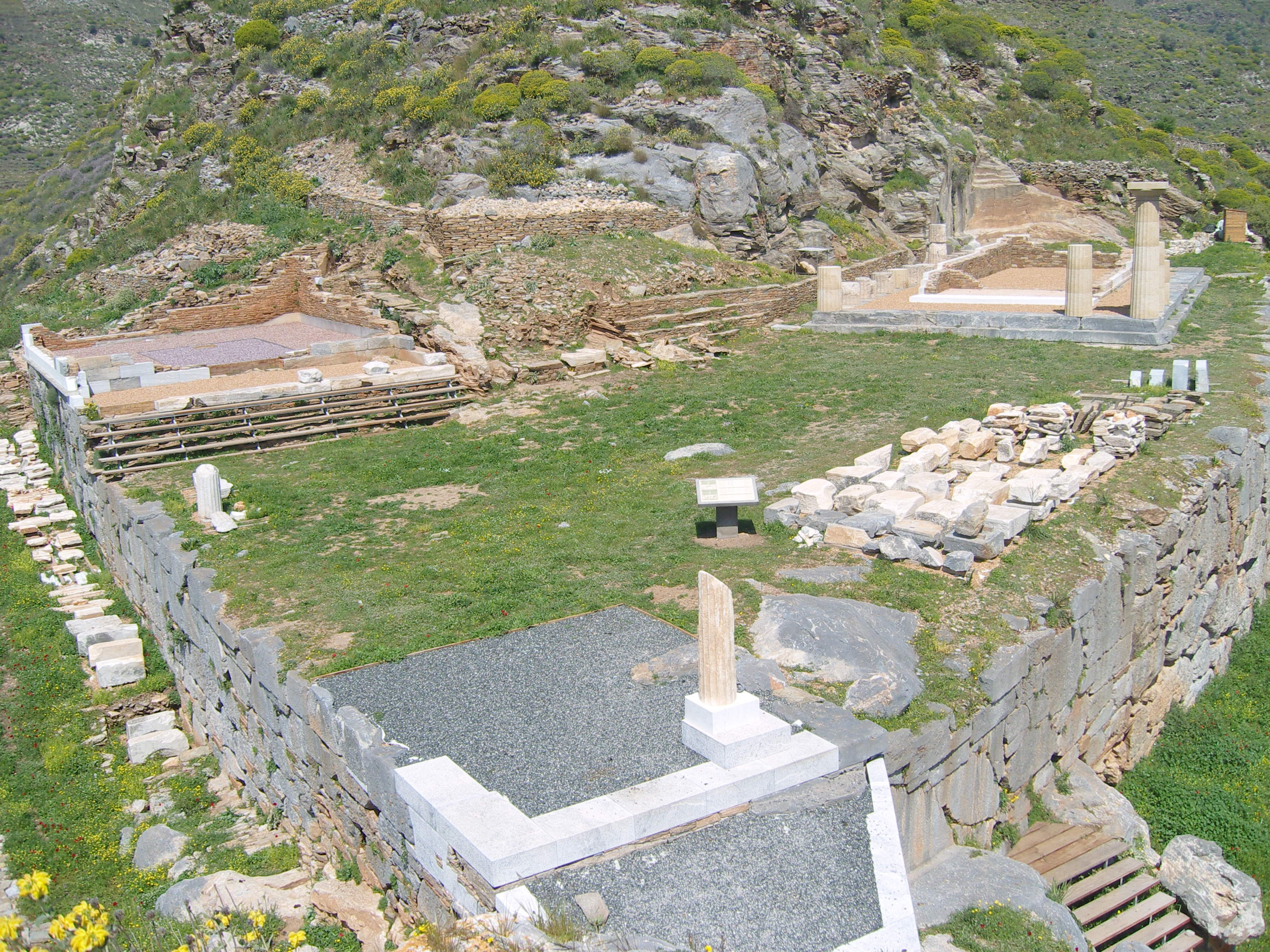 Upper plateau of Karthaia acropolis, Kea island